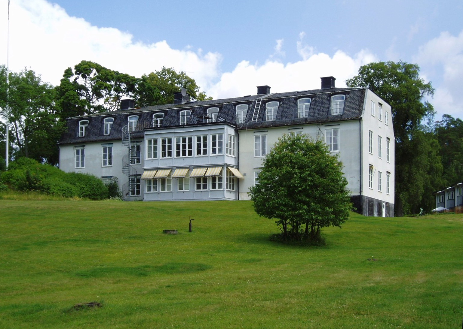 Kallhäll mansion, Järfälla municipality, Sweden